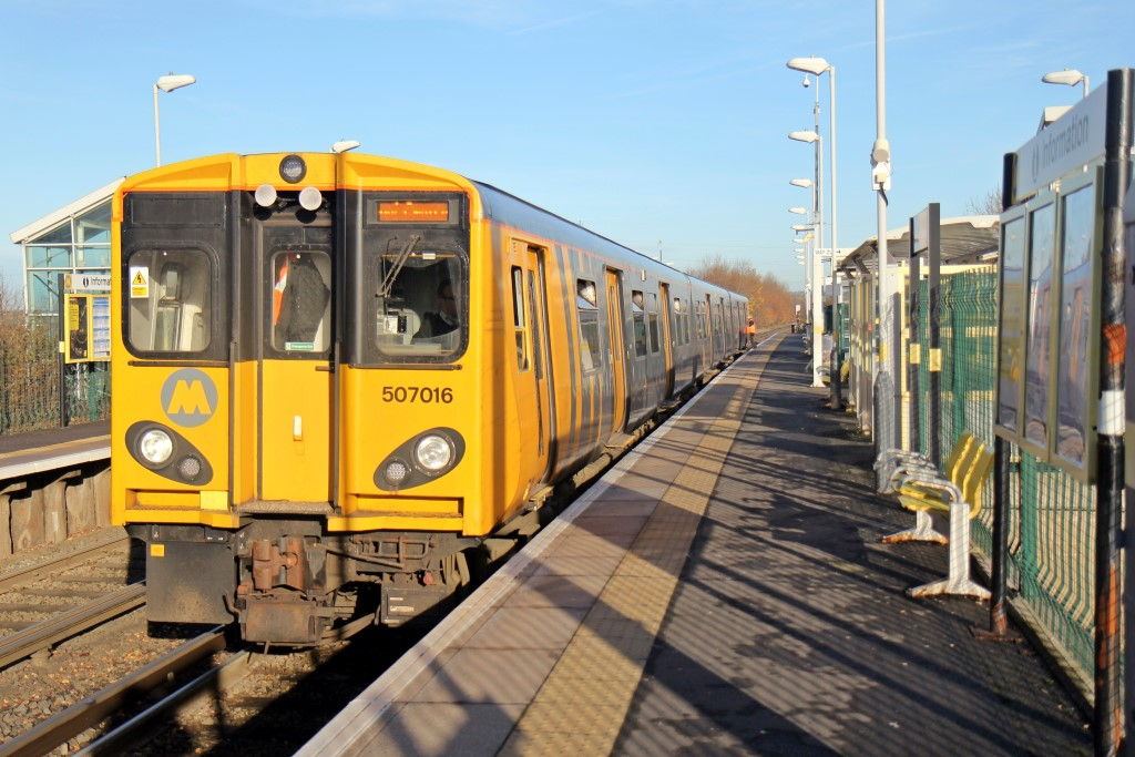 Merseyrail Class 507, 507016, Old Roan railway station